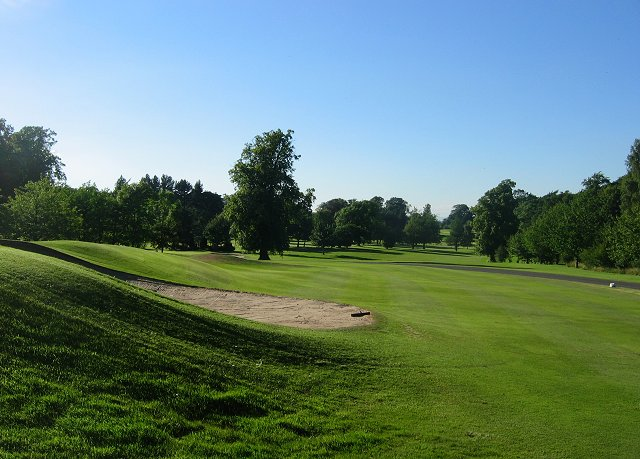 Ratho Park. Country house grounds, now a very well manicured golf course moated by the Union Canal. Well appointed golf courses are common in the Edinburgh green belt.